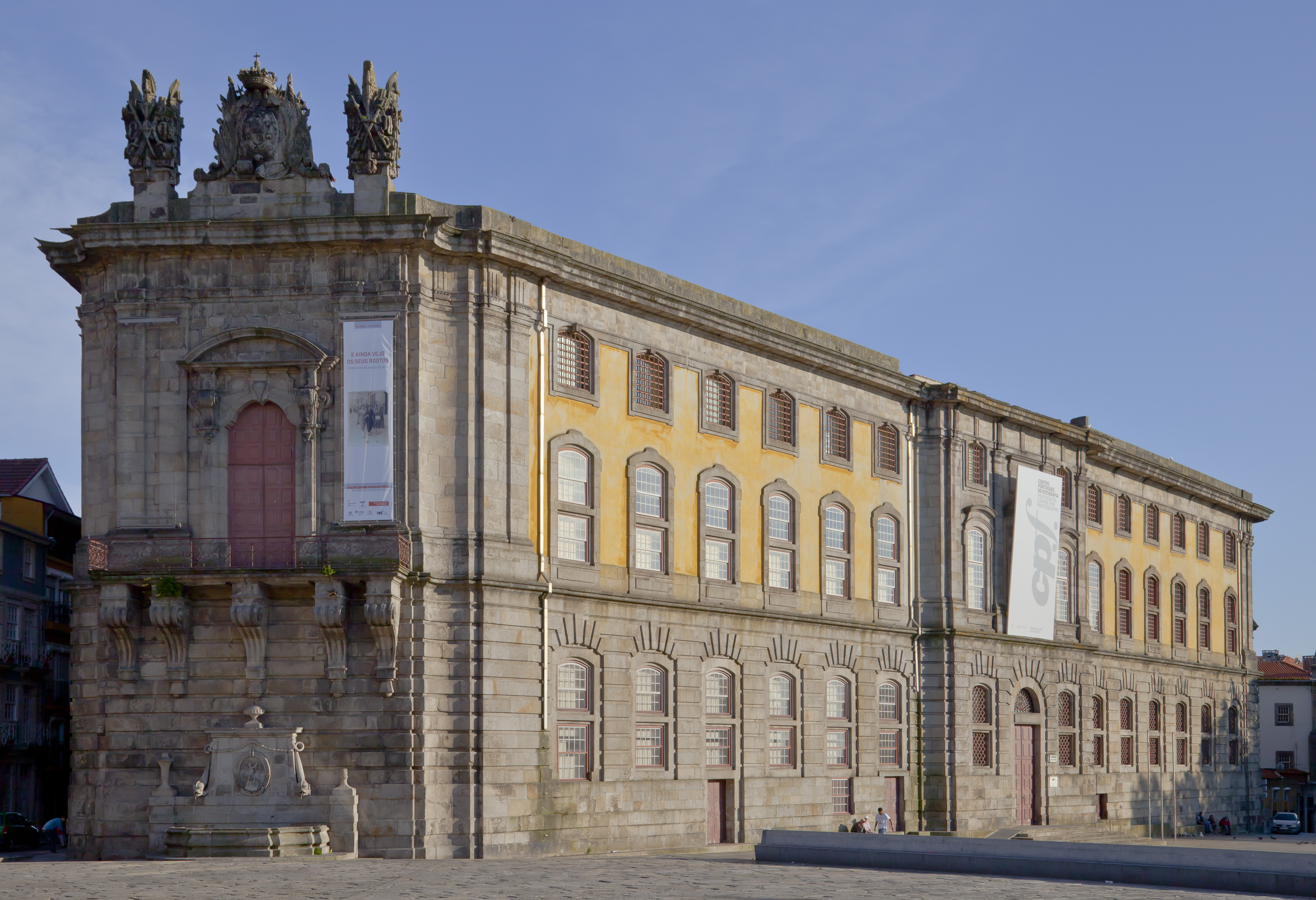 Portuguese Photography Center, Porto, Portugal